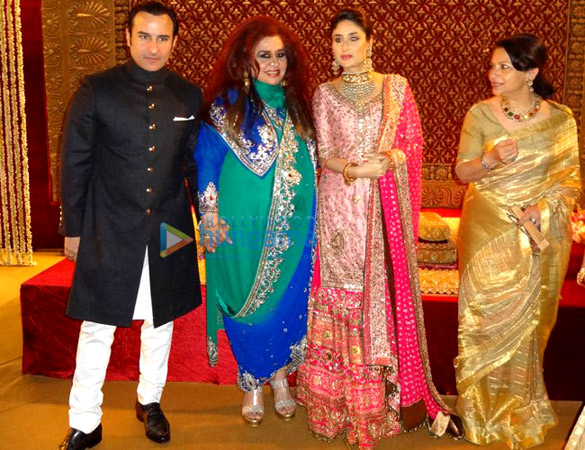 Saif Ali Khan and Kapoor's Dawat-e-Walima in Delhi